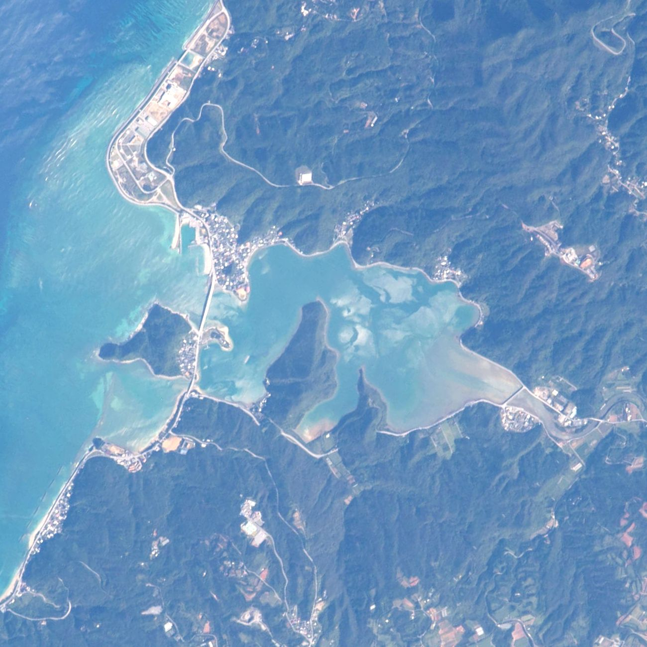 Shioya Bay and Miyagi Island (left), located in Ogimi, Okinawa Prefecture, Japan.